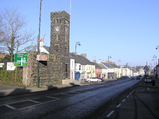 Garvagh, County Londonderry. A pretty little village on the way north to the coast.